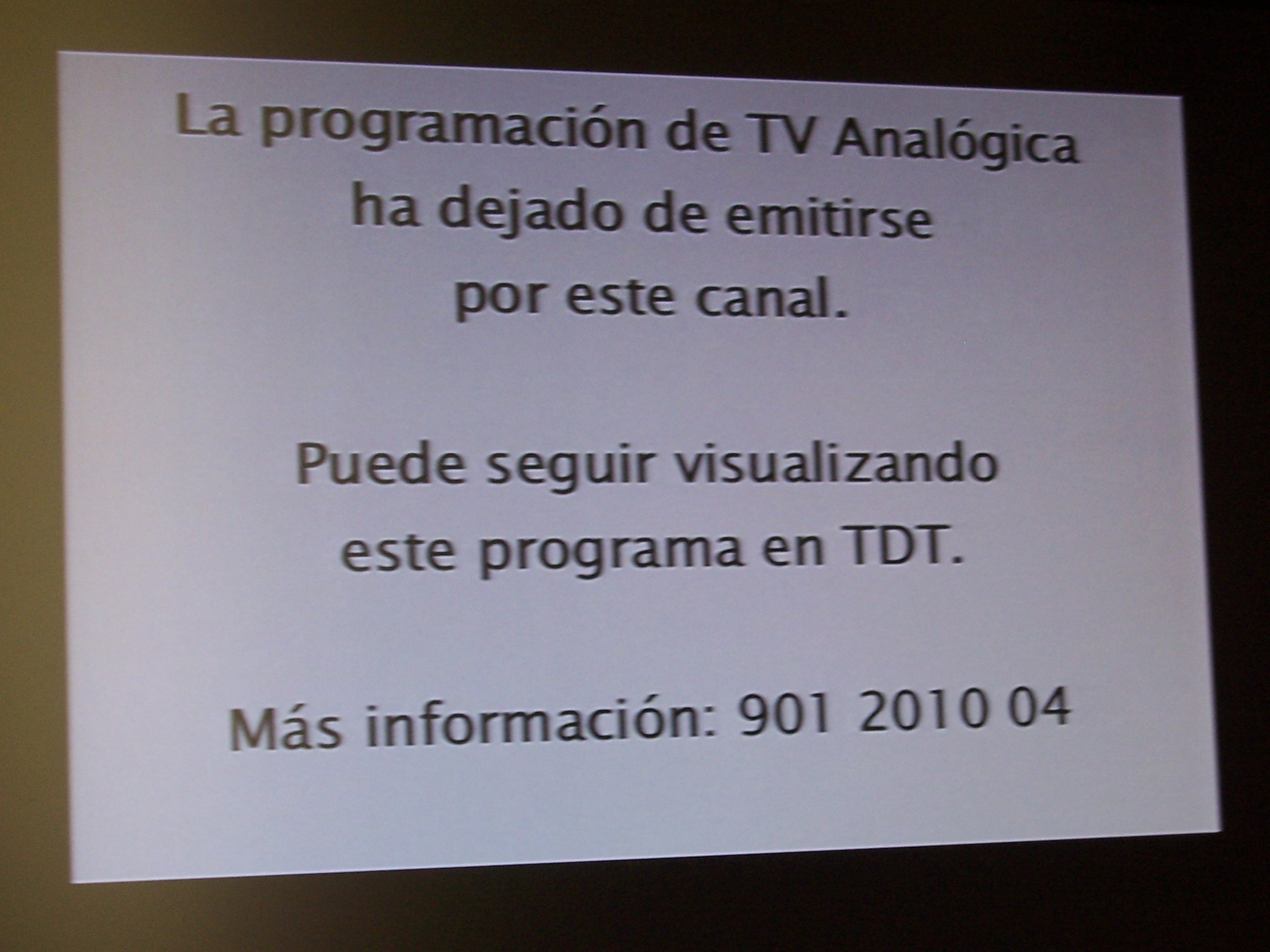 "Analog TV programming is no longer broadcast on this channel. You can continue watching this program via DTT. More information: 901 2010 04"